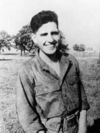 United States Marine Corps Navy Cross recipient Ramón Núñez-Juárez which is credited to the United States Marine Corps.